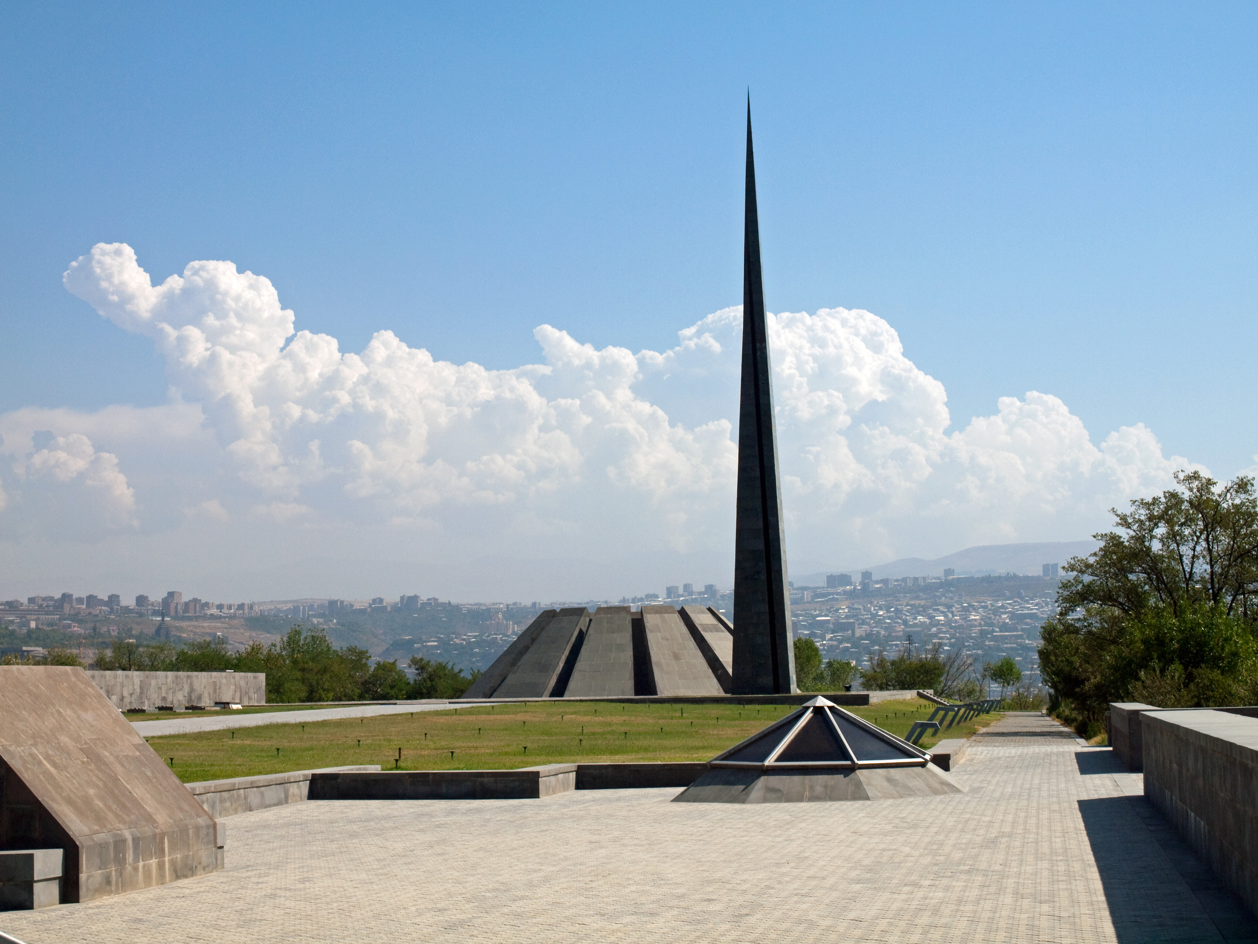 A view of the Genocide Monument above Yerevan at Tsitsernakaberd. Dedicated to the victims of the Great Armenian Genocide in 1915 when 1.5 million Armenians were killed by the Ottoman Turks. The needle (stele) represents the rebirth of the Armenian people.